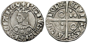 Spain - Cataluña. Barcelona. Peter III of Aragon, the Great. (1276-1285). AR Croat (3.02 gm). + PETRVS:DEI:GRACIA:REX Crowned bust left; robe adorned with six-petal rosettes CIVITAS BARCENONA Cross pattée quartered with annulets (1st, 4th quadrant) and pellet trefoils. Badia i Torres 213; Crusafont 225.1; C&C 1771. VF, light scratches in fields.